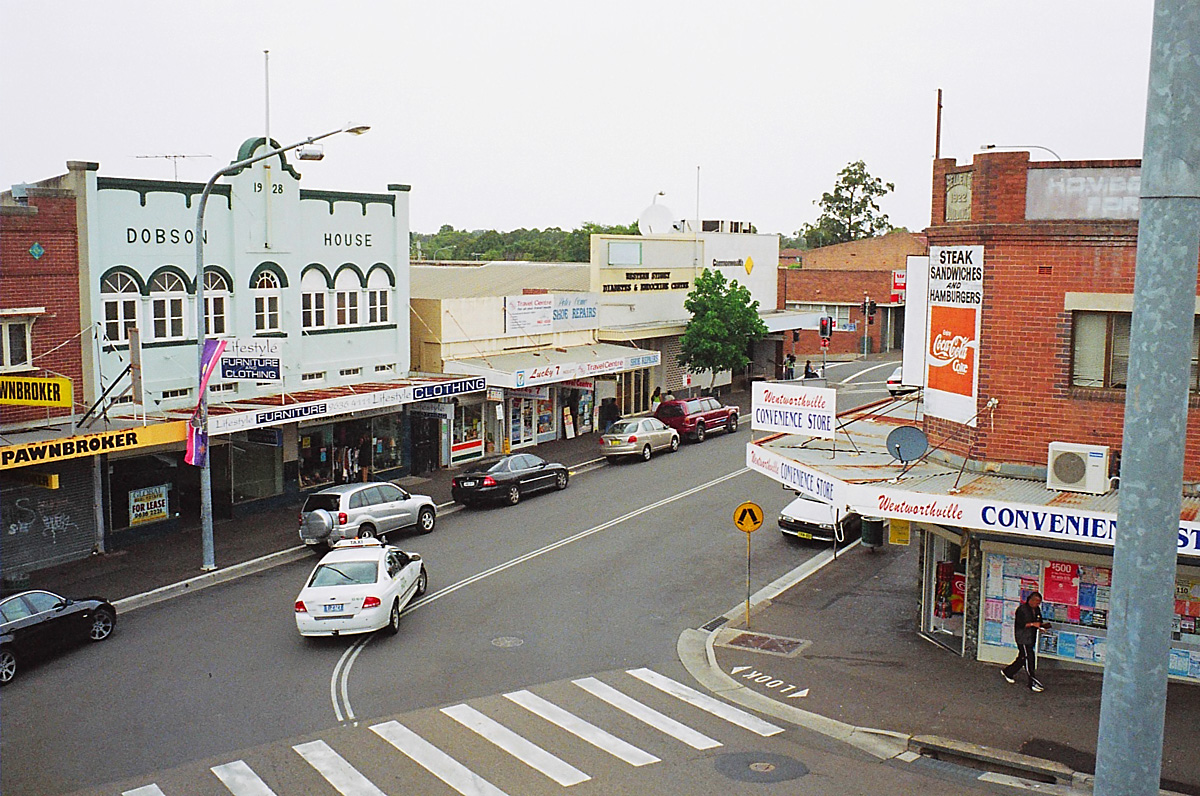 Wentworthville, as seen from the footbridge to Wentworthville railway station. Taken by myself on Saturday 02DEC2006 Mike Funnell 23:54, 7 December 2006 (UTC) Konica Hexar RF with M-Hexanon 35mm/f2 lens @f8; Kodak Gold 800, lab scan; resized and adjustments made in PSE3.